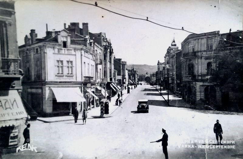 Varna. "6 September" street.